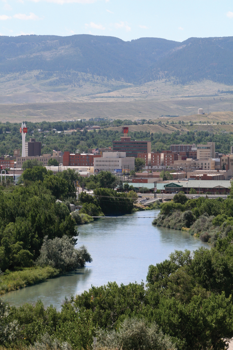 Improved skyline image of Casper Wyoming